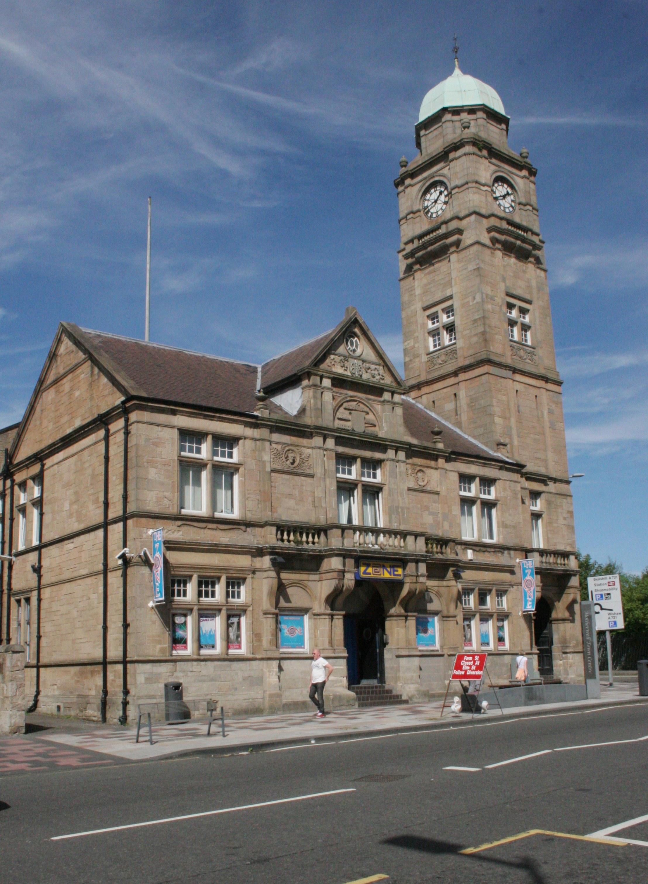 The Zone, Hamilton Road